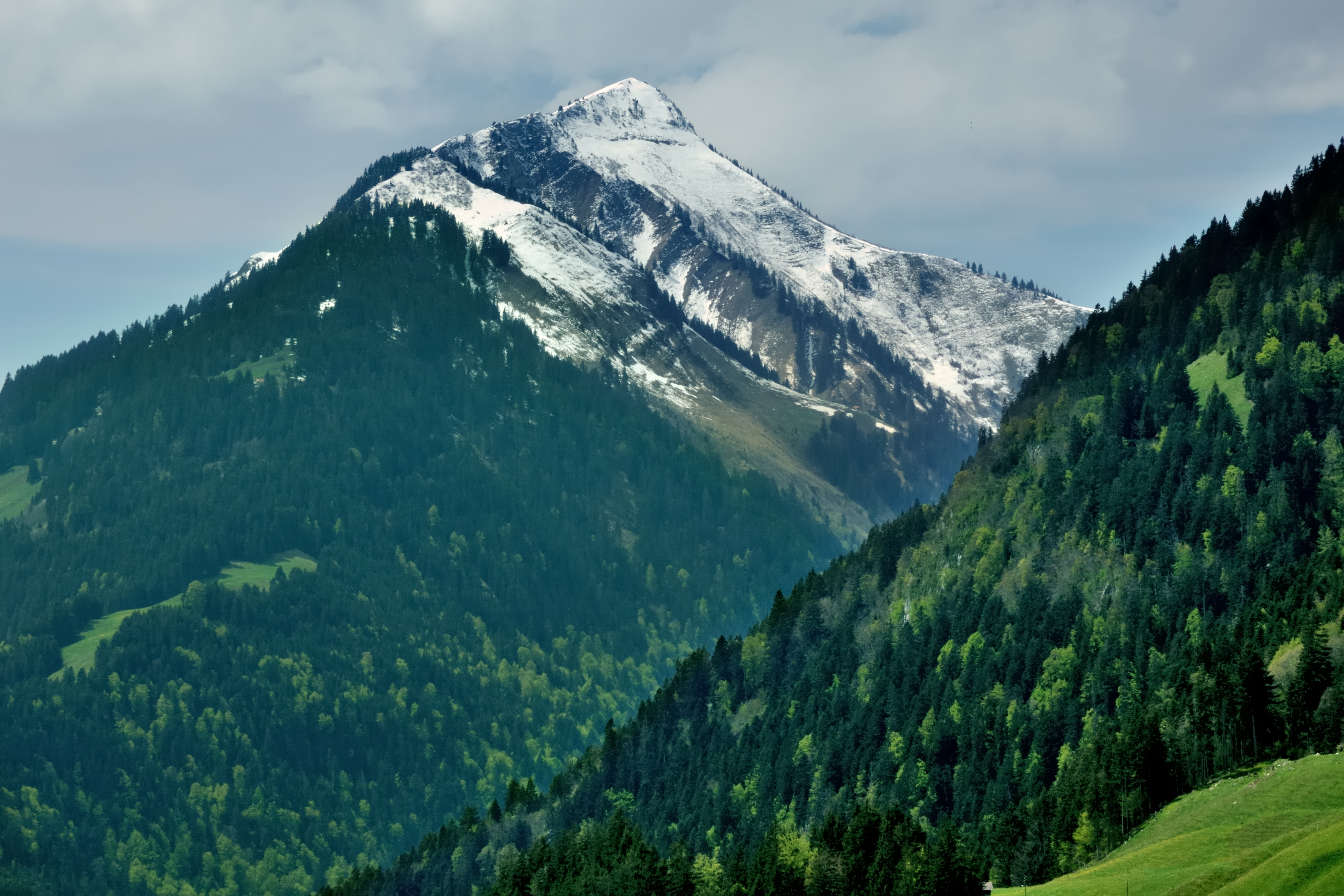 Planachaux, Château-d'Oex (Cierne au Cuir)